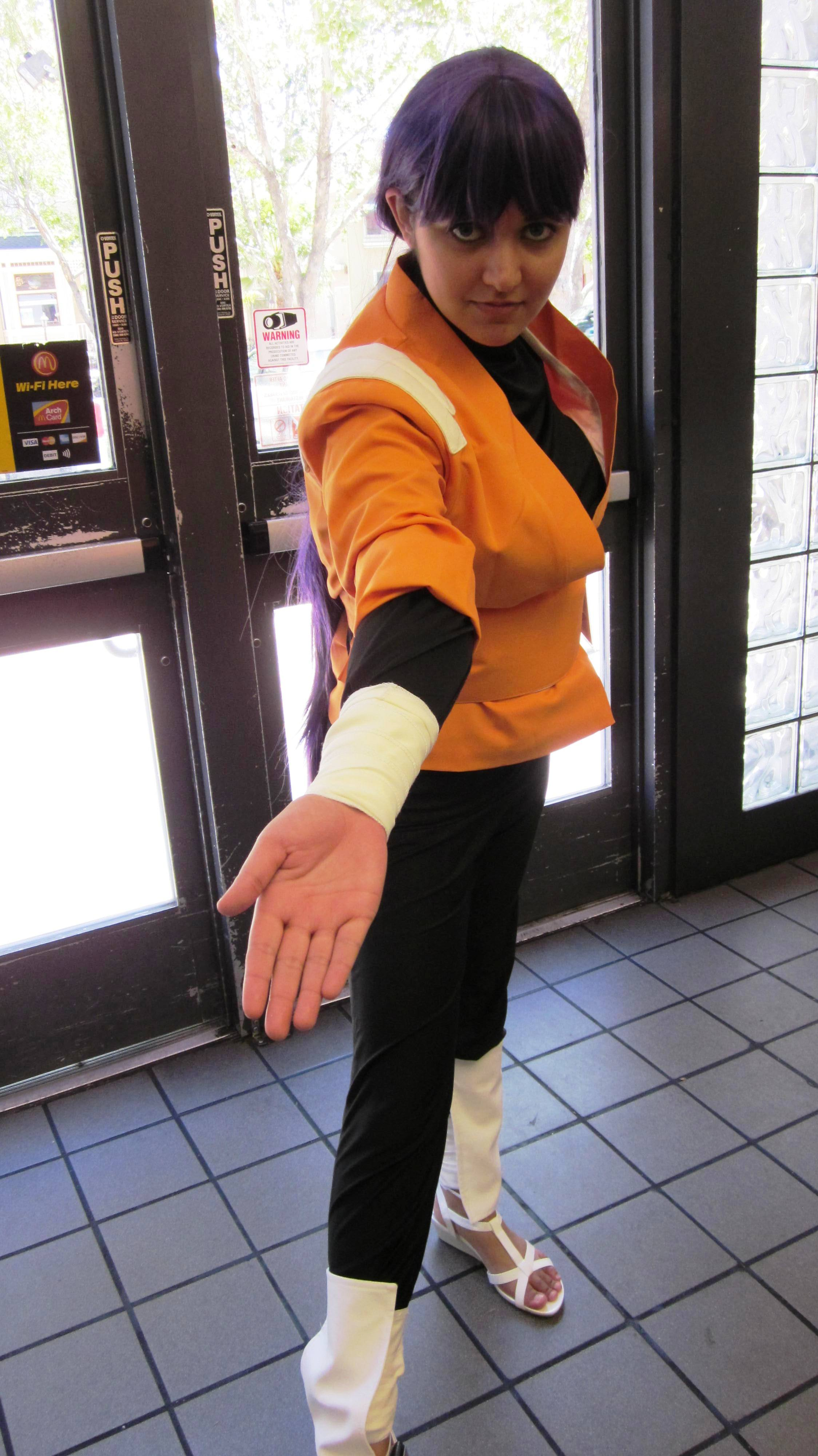 A cosplayer portraying Yoruichi Shihōin from Bleach at FanimeCon 2010 in San Jose, California.